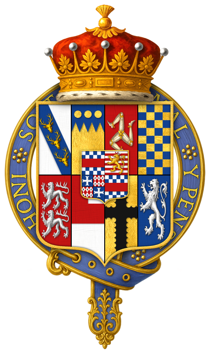 Quartered arms of Sir Henry Stanley, 4th Earl of Derby, KG Quartering based on the 16th century portrait of Derby at the Manx National Heritage Museum.